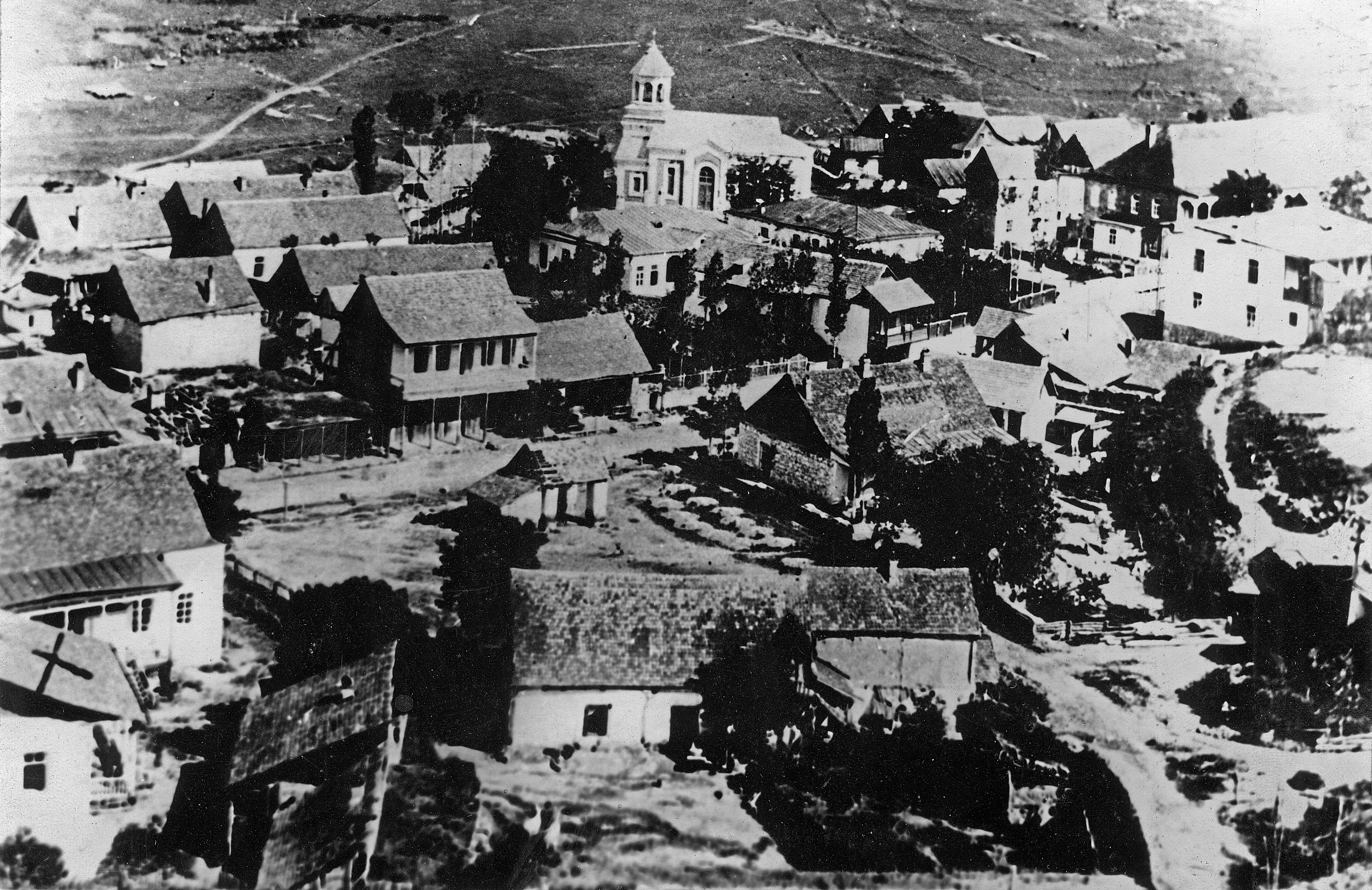 Dilijan Panorama 2